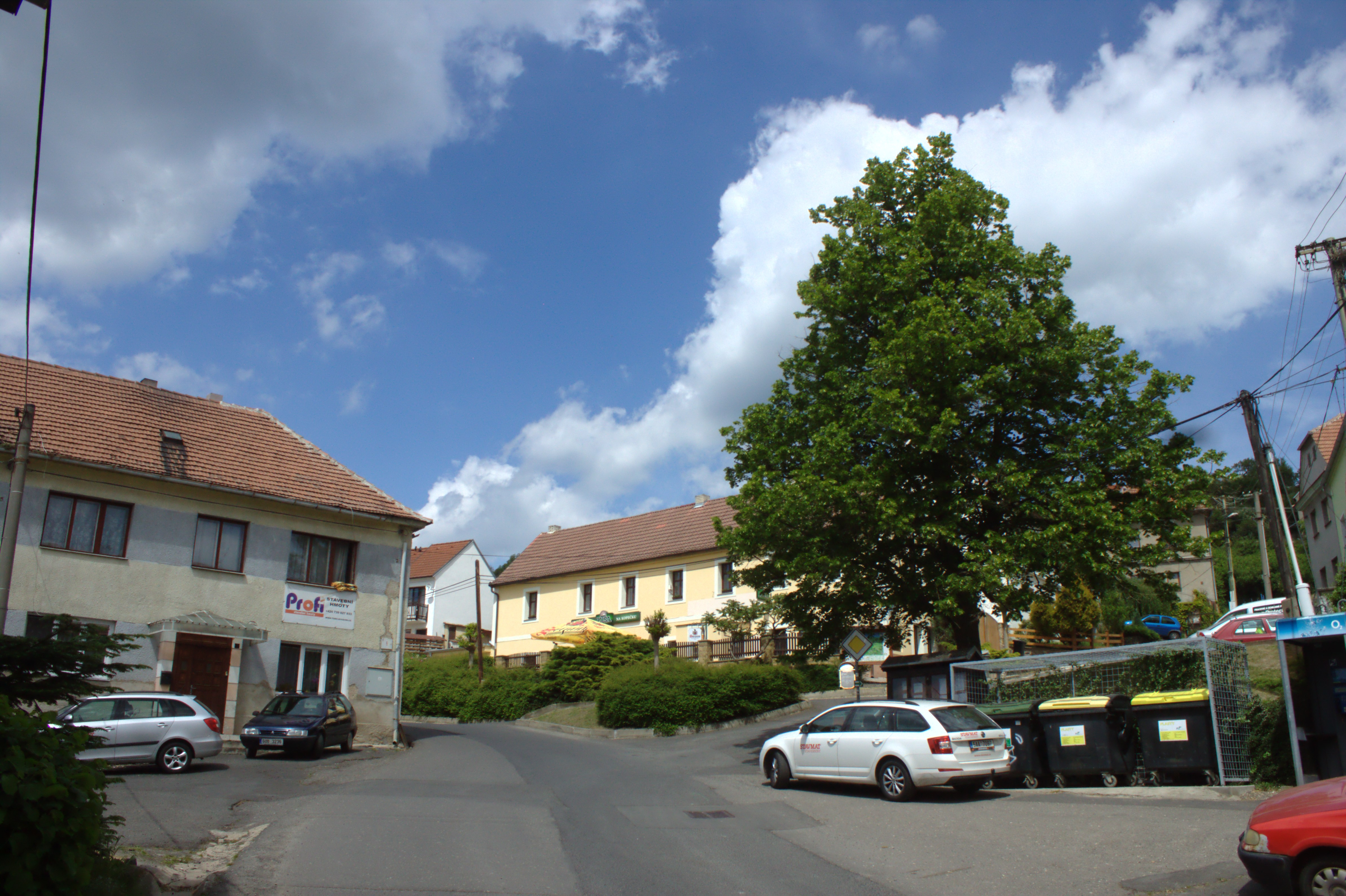 Main common in the village of Miřejovice, Ustí nad Labem Region, CZ